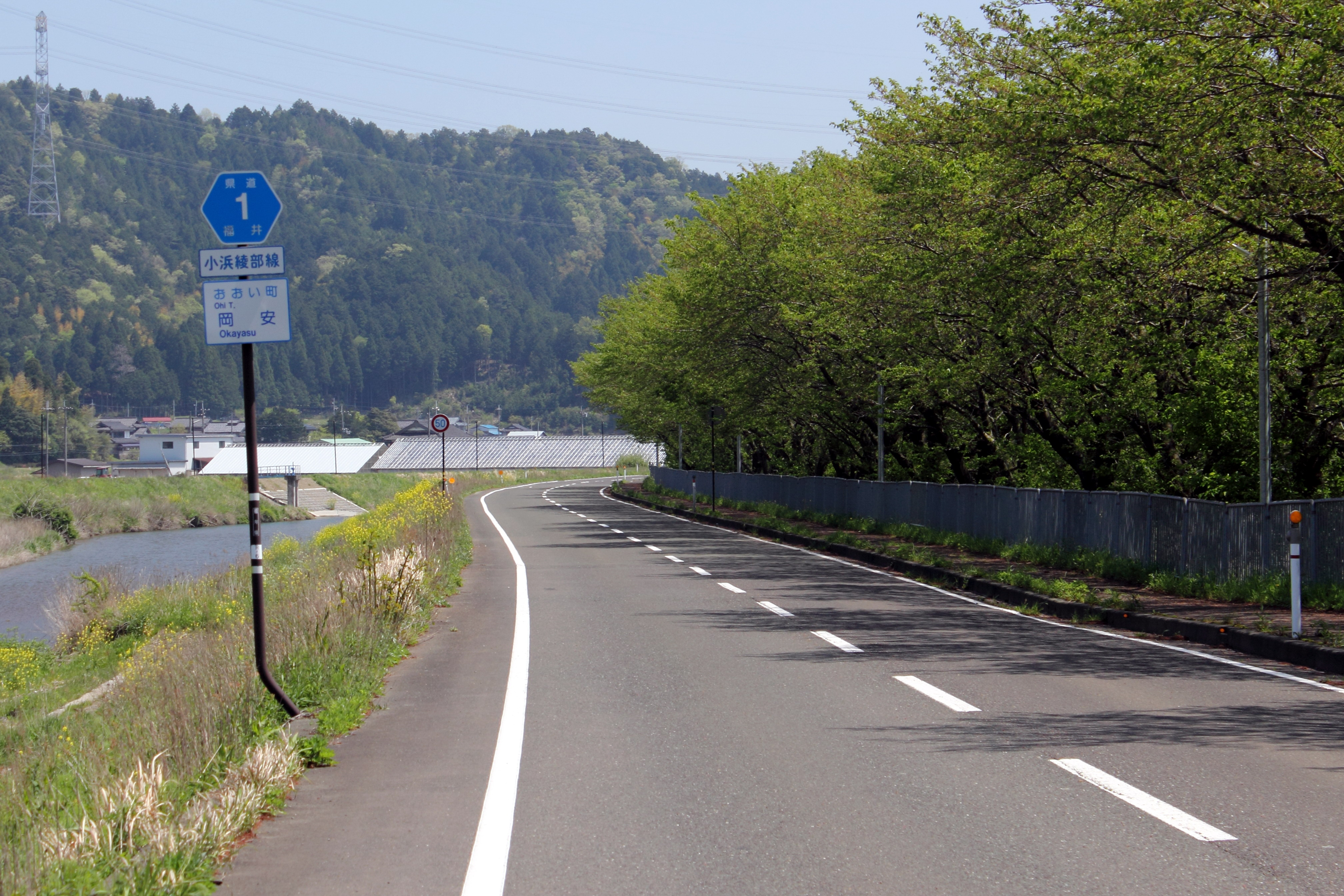 Fukui Prefectural Road Route 1 in Okayasu, Oi Town